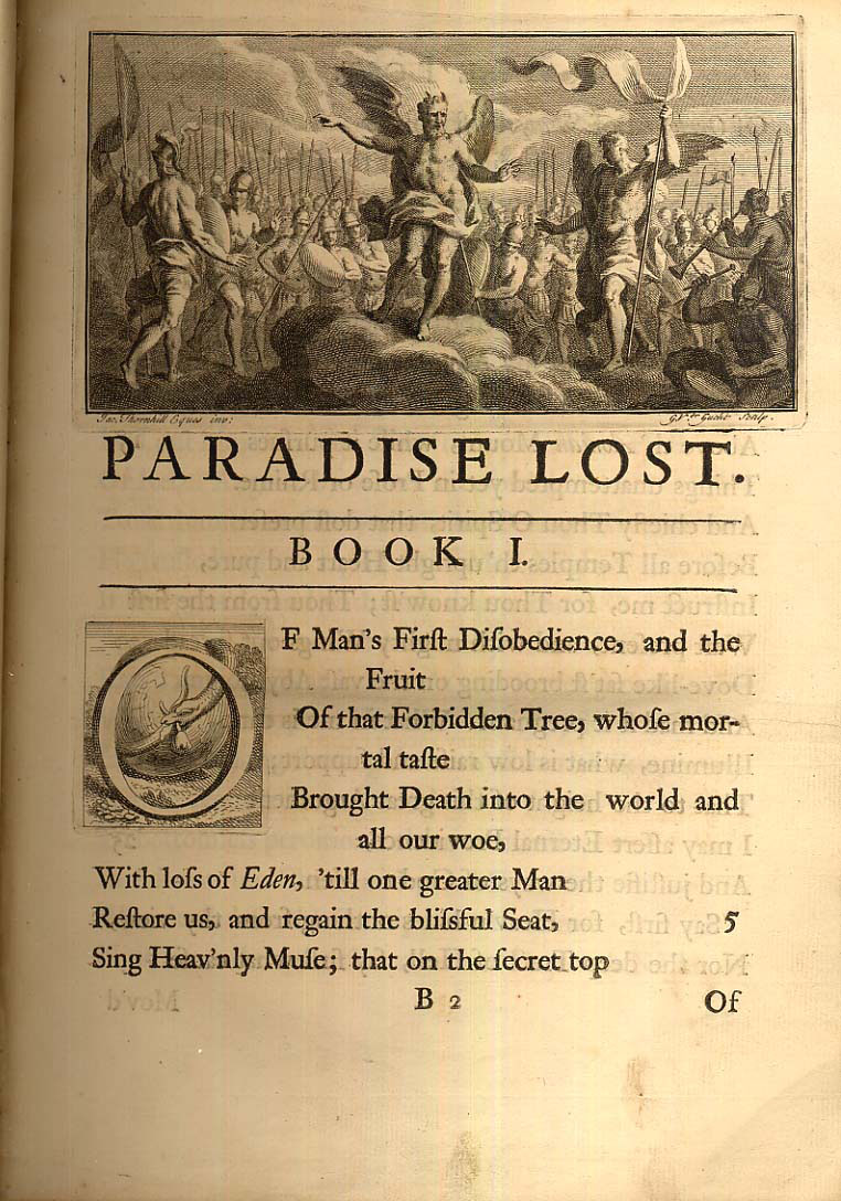 Opening page of a 1720 illustrated edition of Paradise Lost by John Milton.